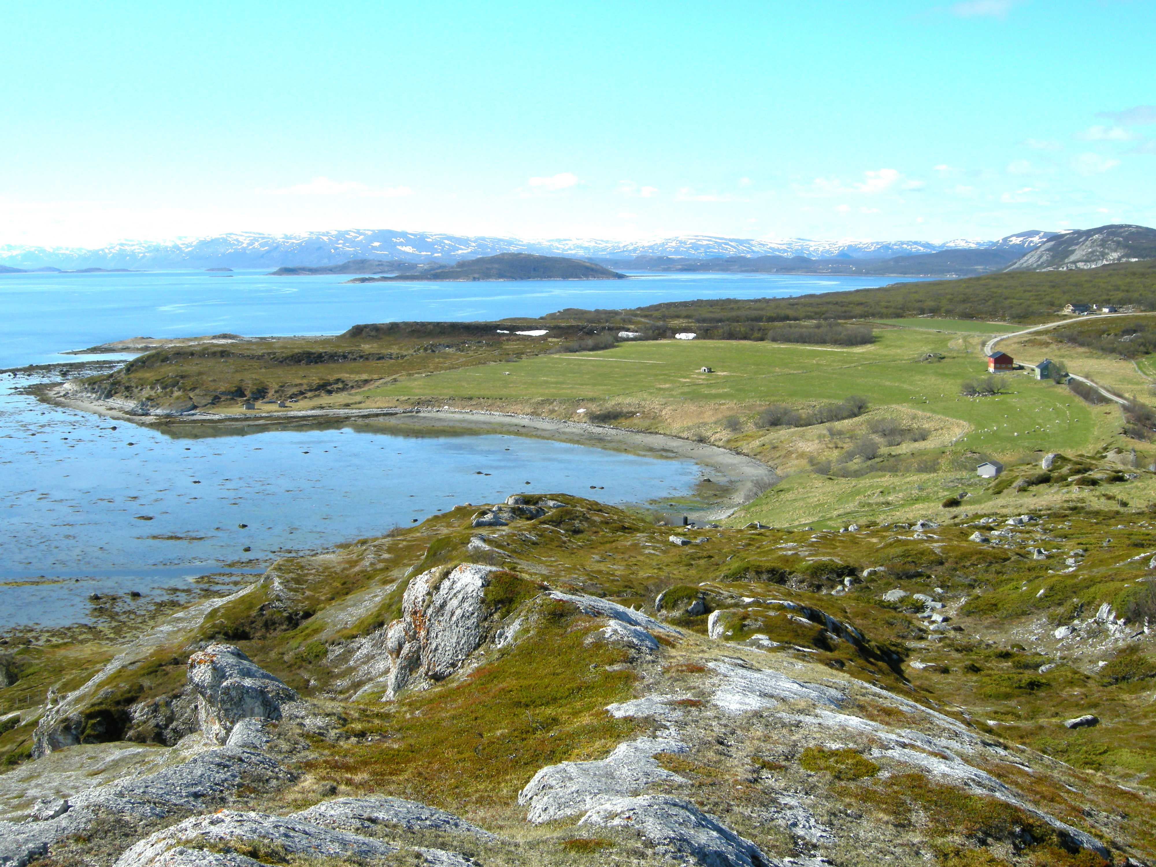 Porsangerfjorden looking at Orkkanluokta, Finnmark, Norway